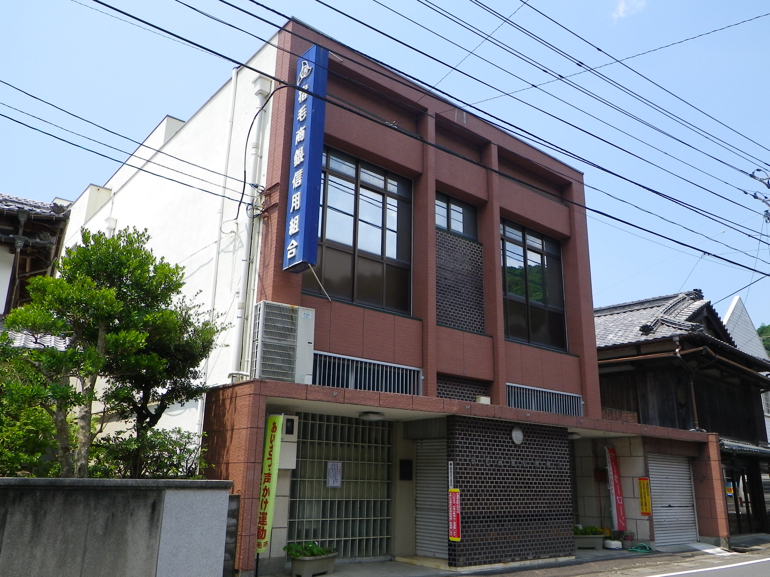 Sukumo shogin shinyokumiai